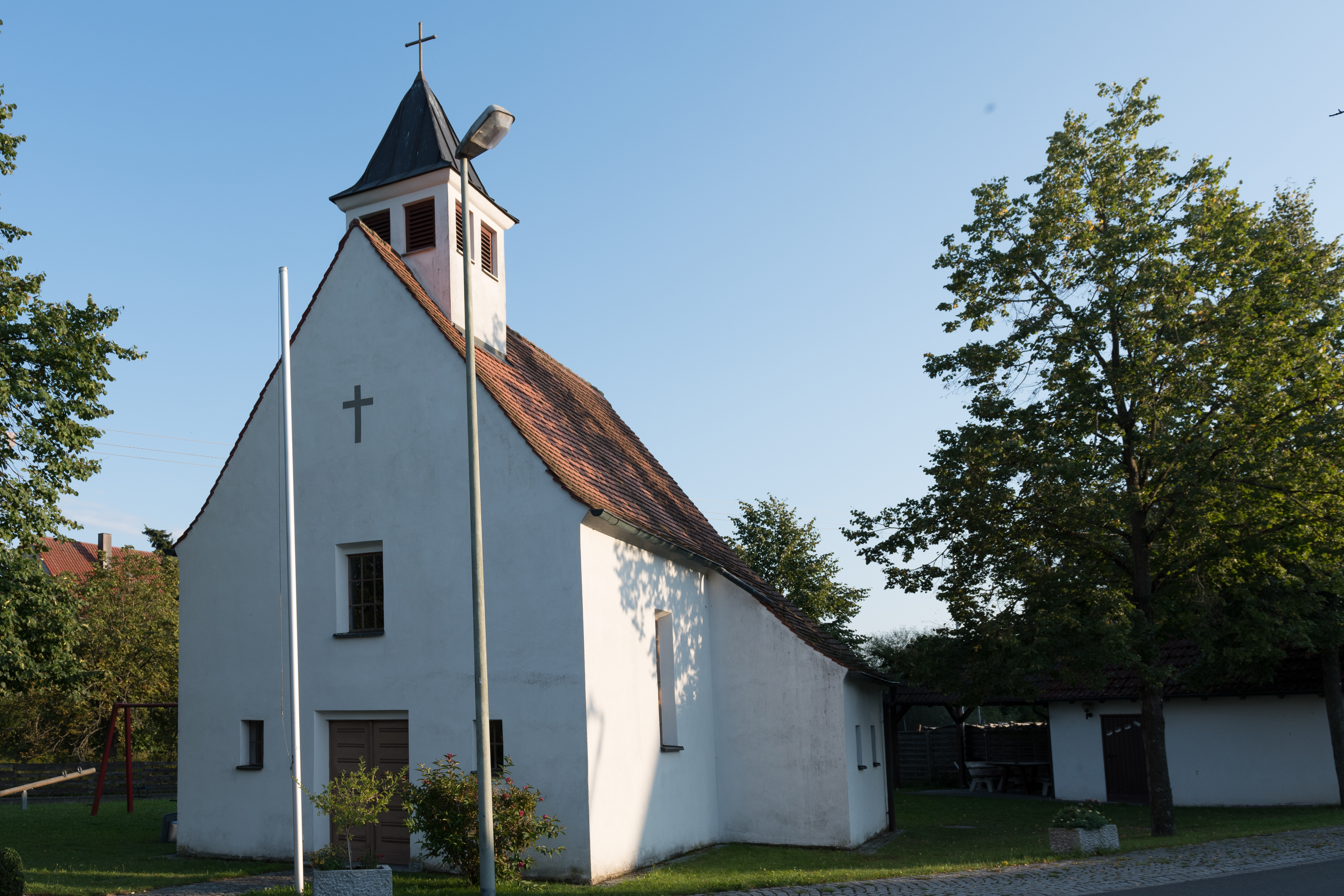 This is a photograph of an architectural monument.